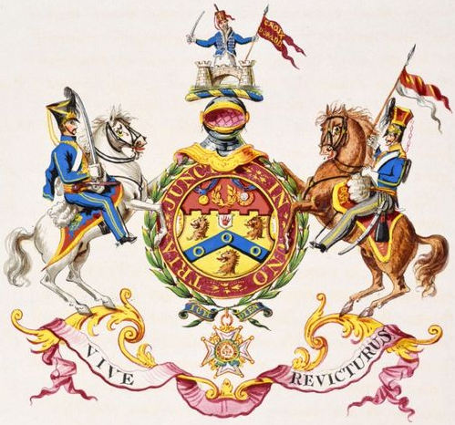 Heraldic achievement of Lieutenant General (Richard) Hussey Vivian, 1st Baron Vivian (1775-1842). Blazon: Or, on a chevron azure between three lion's heads erased proper as many annulets of the first on a chief embattled gules a wreath of oak of the first between two medals that on the dexter representing the gold medal and clasp given to the first baron for his services in the actions of Sahagreen, Benevente and Orthes and that on the sinister the silver Waterloo medal (Montague-Smith, P.W. (ed.), Debrett's Peerage, Baronetage, Knightage and Companionage, Kelly's Directories Ltd, Kingston-upon-Thames, 1968, p.1123). Also shown is an inescutcheon with the Red Hand of Ulster referencing his baronetcy. This is an example of what James Planché termed "debased heraldry", which contains overly complex elements. They are a differenced version of the arms of Vivian of Truro in Cornwall: Or, a chevron azure between three lion's heads erased proper a chief gules (Vivian, Lt.Col. J.L., (Ed.) The Visitations of the County of Devon: Comprising the Heralds' Visitations of 1531, 1564 & 1620, Exeter, 1895, p.757). Motto: Vive Revicturus ("Live as one about to live hereafter") (Debrett's, 1968, p.1123). Pendant below is a Badge of a Military Knight Grand Gross of the Order of the Bath, with the accompanying motto Ich Dien (Debrett's, 1968, pp.896-7). The motto encircling the arms is that of the Order of the Bath: Tria Juncta in Uno.